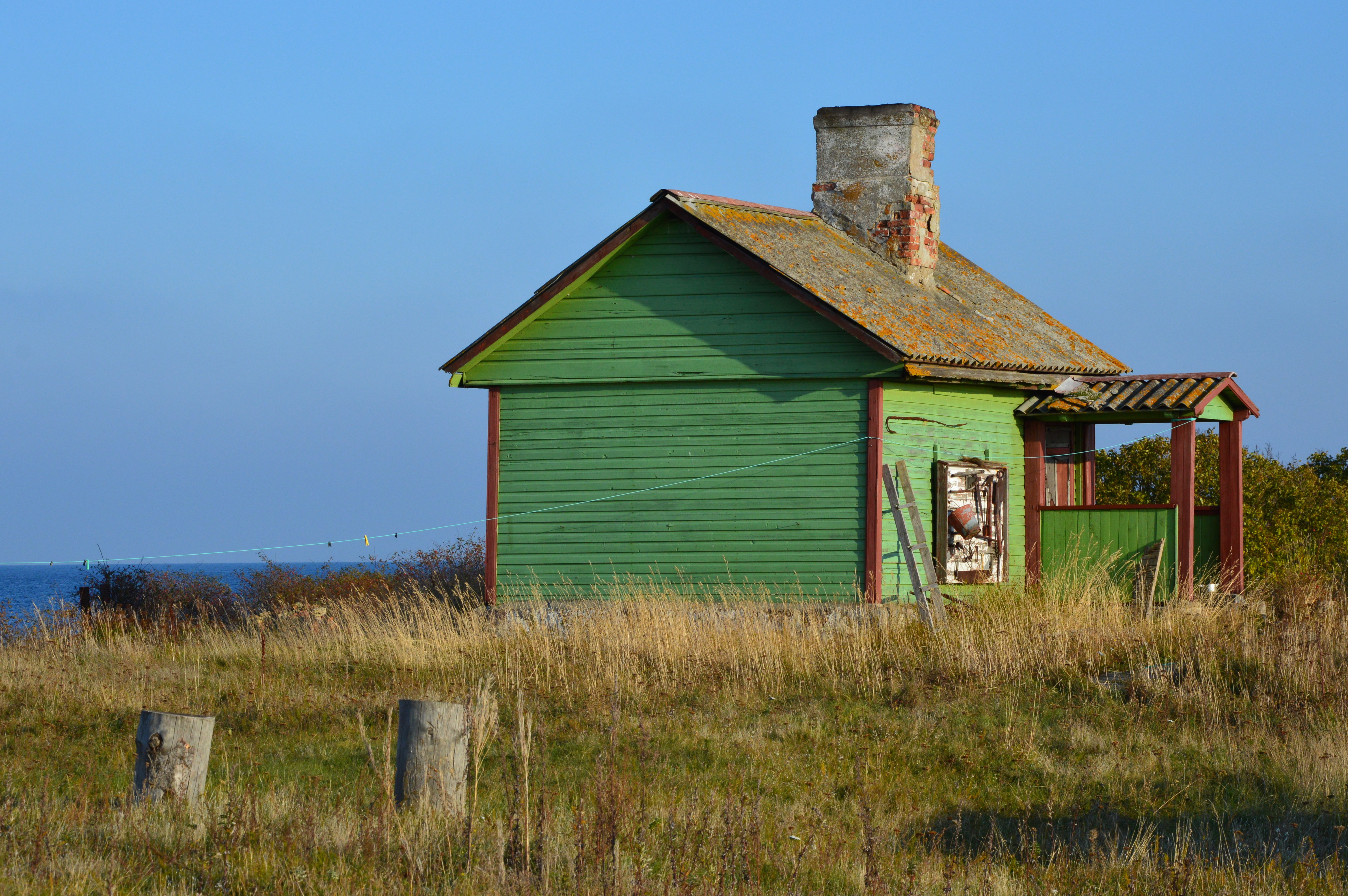 Northernmost sauna in Estonia. Keri island.